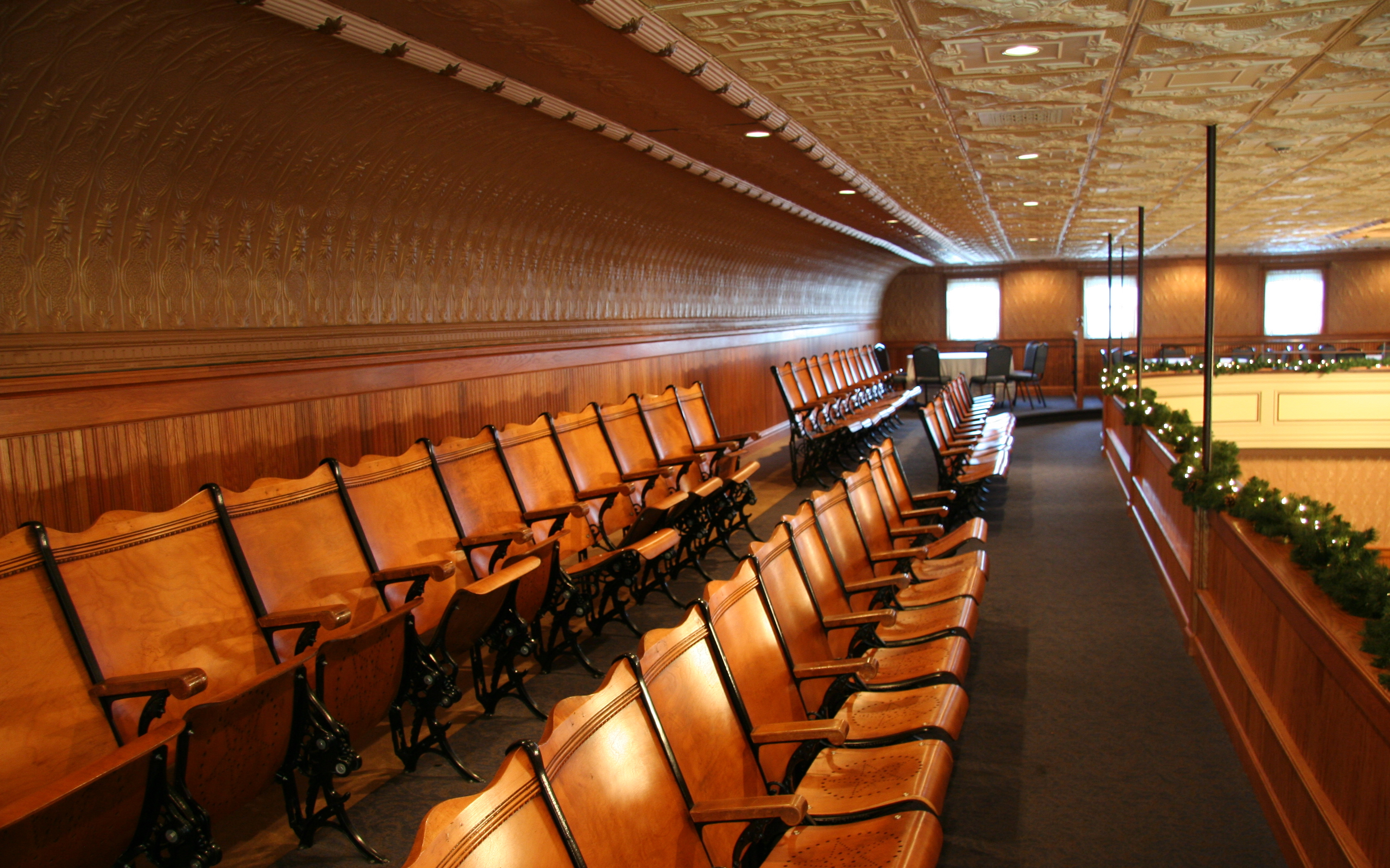 Balcony of the Steyer Opera House in Decorah, Iowa, listed on the National Register of Historic Places